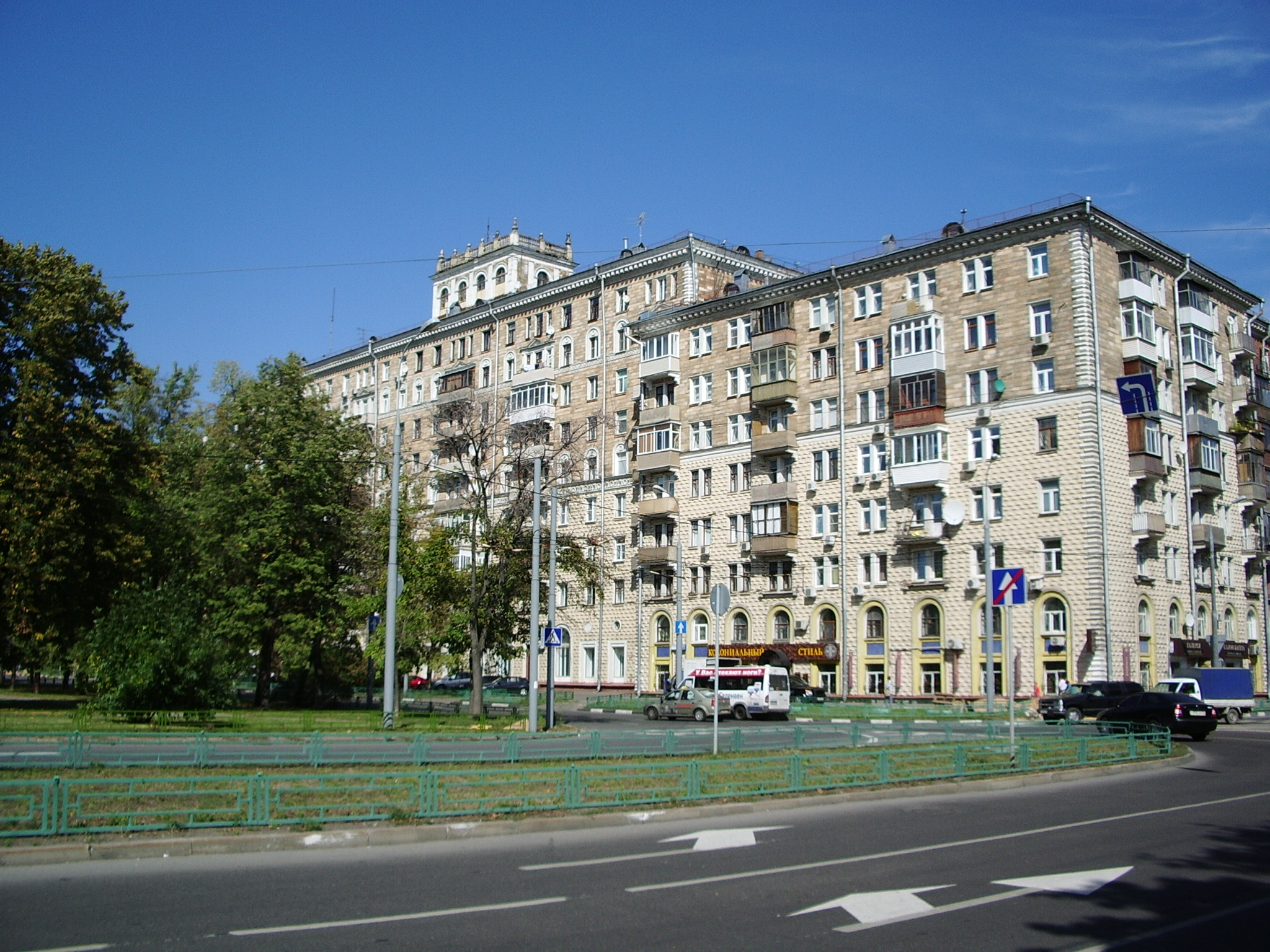 Moscow, Novopeschanaya street 23